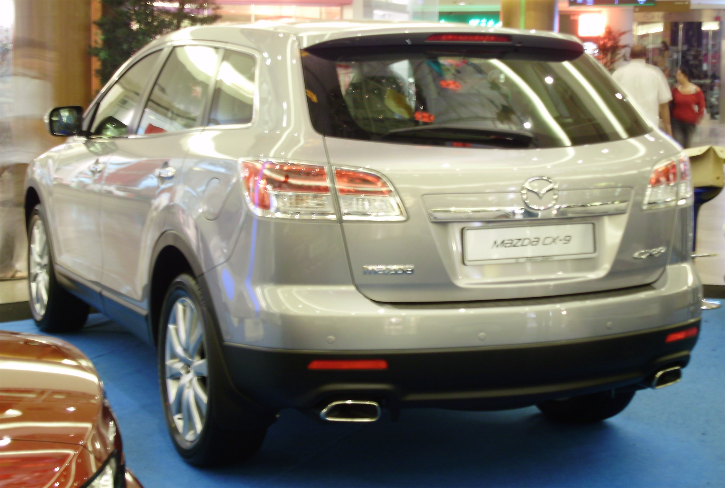 Rear quarter view of a first generation Mazda CX-9 in Seputeh, Kuala Lumpur, Malaysia.